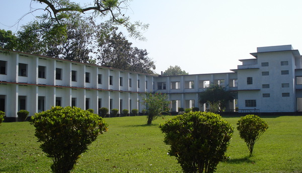 Rangpur Cadet College main academic building